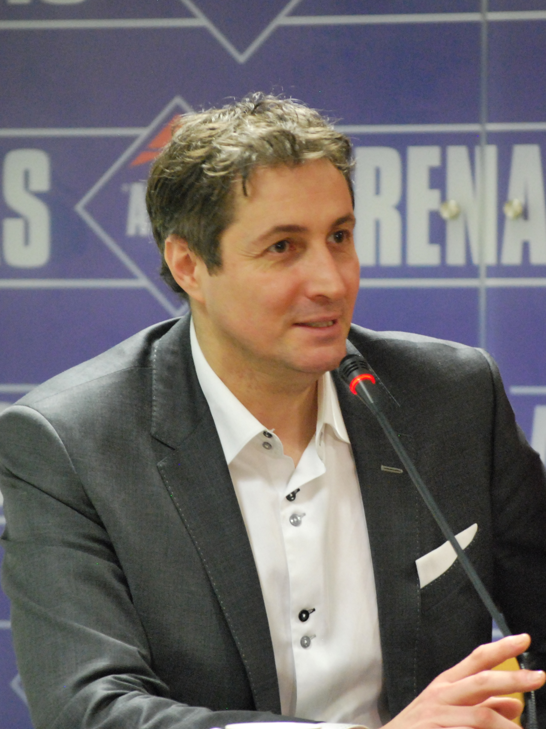 Pedros Cup 2015 Łódź, Artur Partyka, former high jumper from Poland